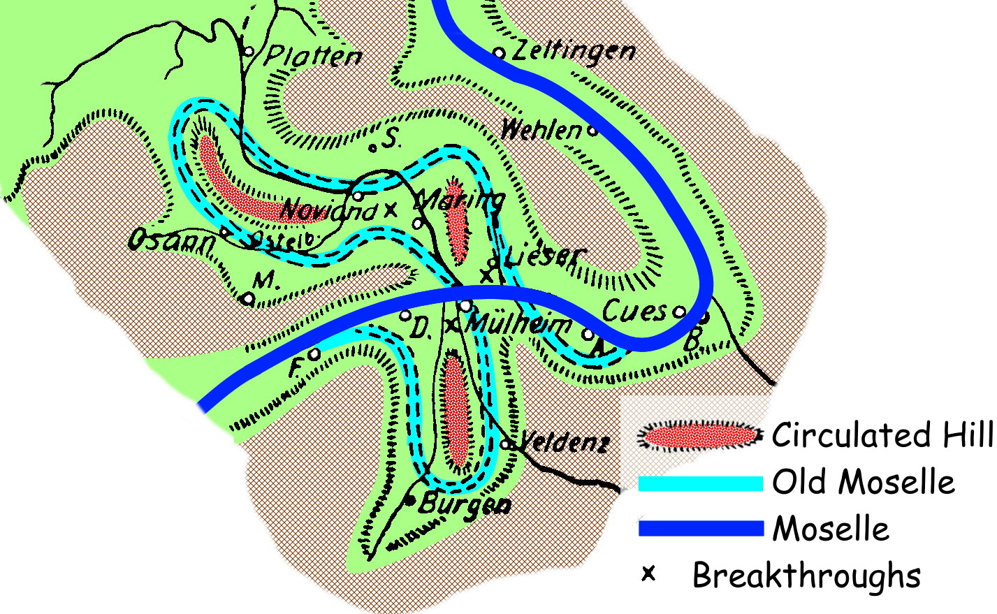 The Old Moselle: Course and breakthroughs between the former circulated mountains of Osann-Veldenz. According to a sketch by B. Dietrich (1910)